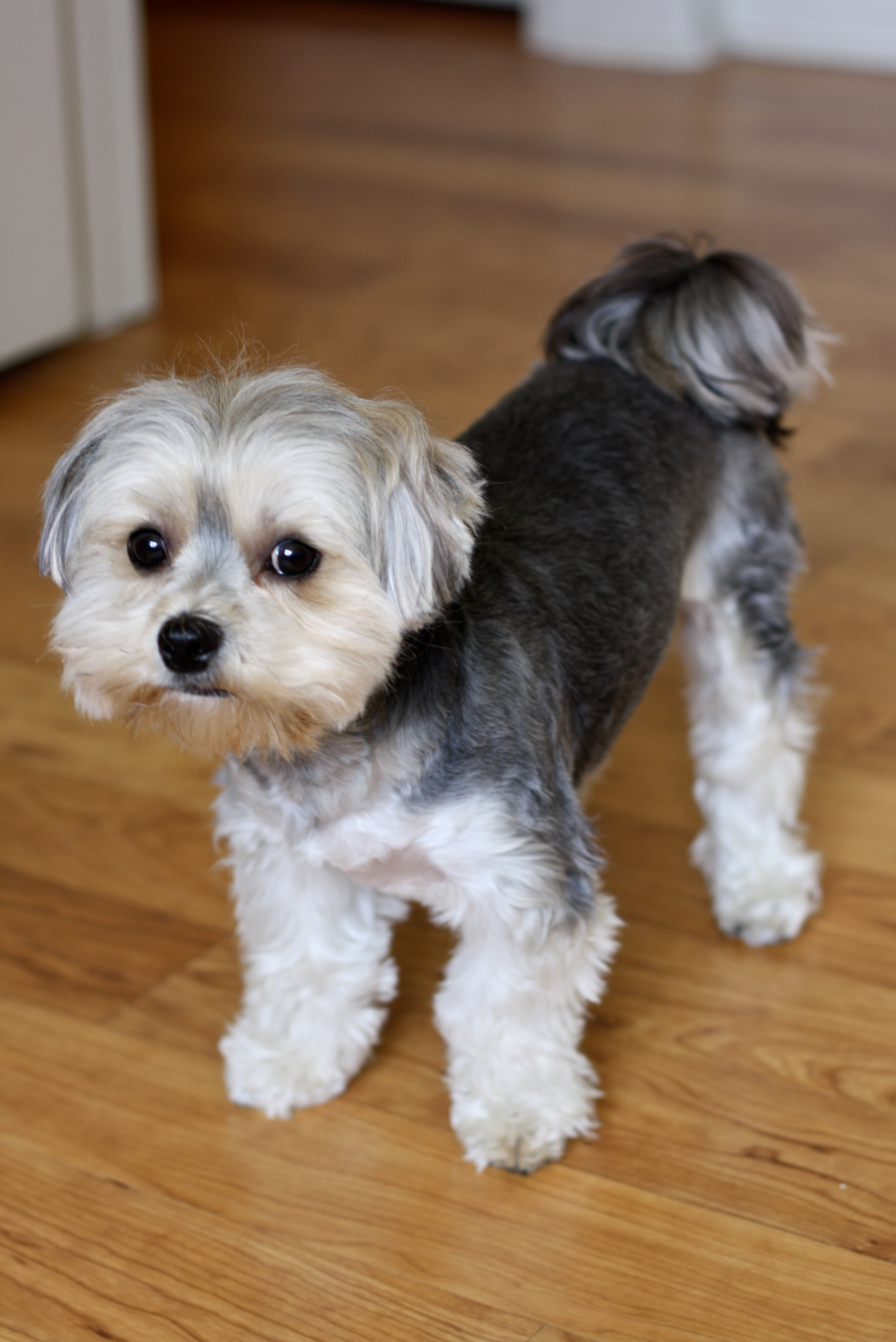 Photograph of a Morkie taken with a Canon EF50mm f/1.9 II